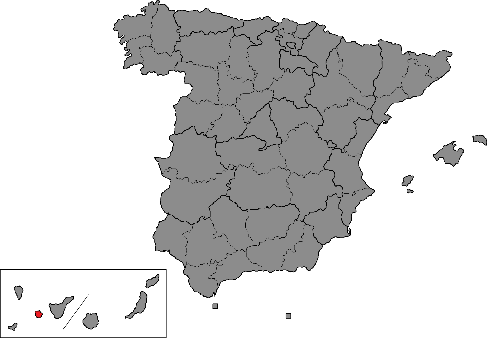 Spanish Senate district of La Gomera.